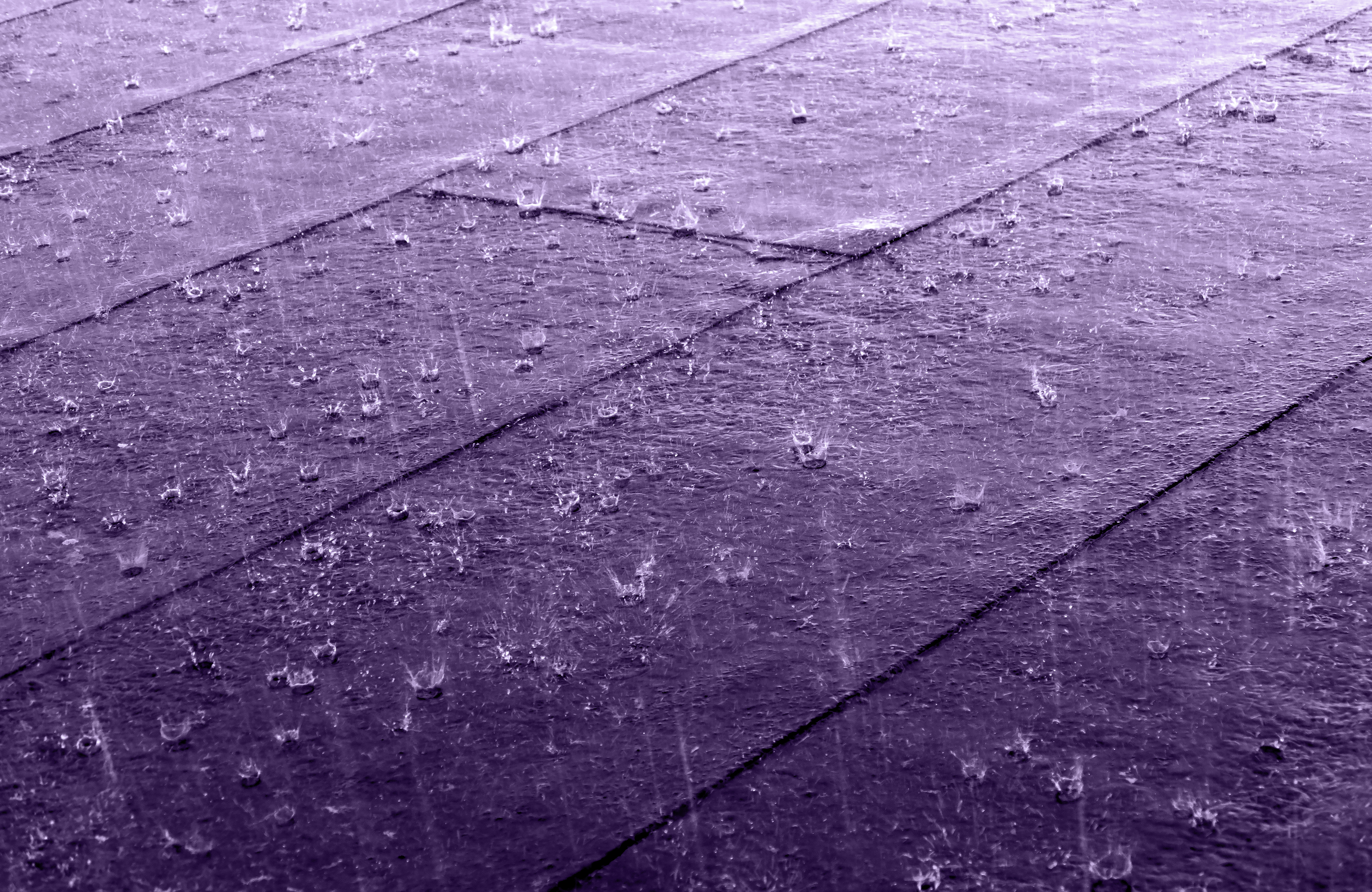 Hard rain on a roof covered with felt and tar paper in Gåseberg, Lysekil Municipality, Sweden. The black and white version has been altered using a monichrome purple filter. The color chosen is the Pantone color "Love symbol #2" that the Pantone Color Institute introduced to honor Prince (musician).